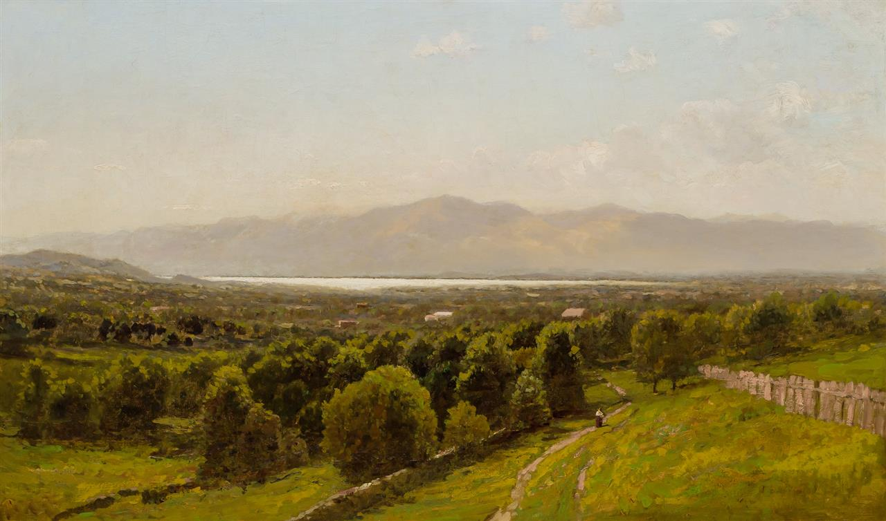 Larrabee's Point, Lake Champlain by John Bunyan Bristol, oil on canvas, 18 x 30 inches